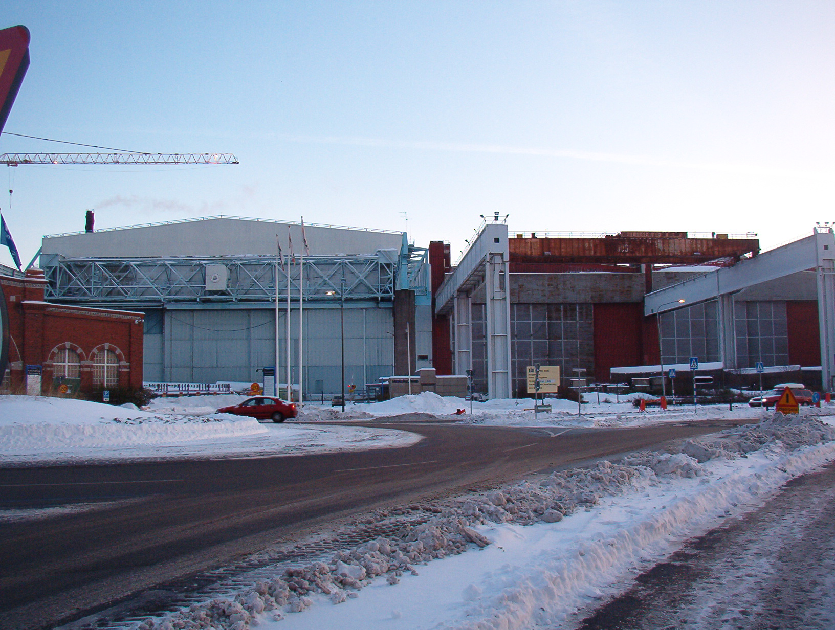 More buildings of Kockums AB ship yard in Malmö, Sweden. Appear to be abandonded today. Date:January 2006